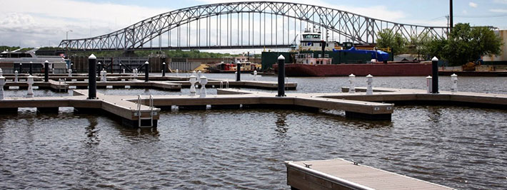 The city of Dubuque, Iowa, celebrated the grand-opening of the Port of the Dubuque Marina on June 1. The marina features 70 transient boat slips on the Mississippi River. (U.S. Fish and Wildlife Service photo by Terry Steinert)